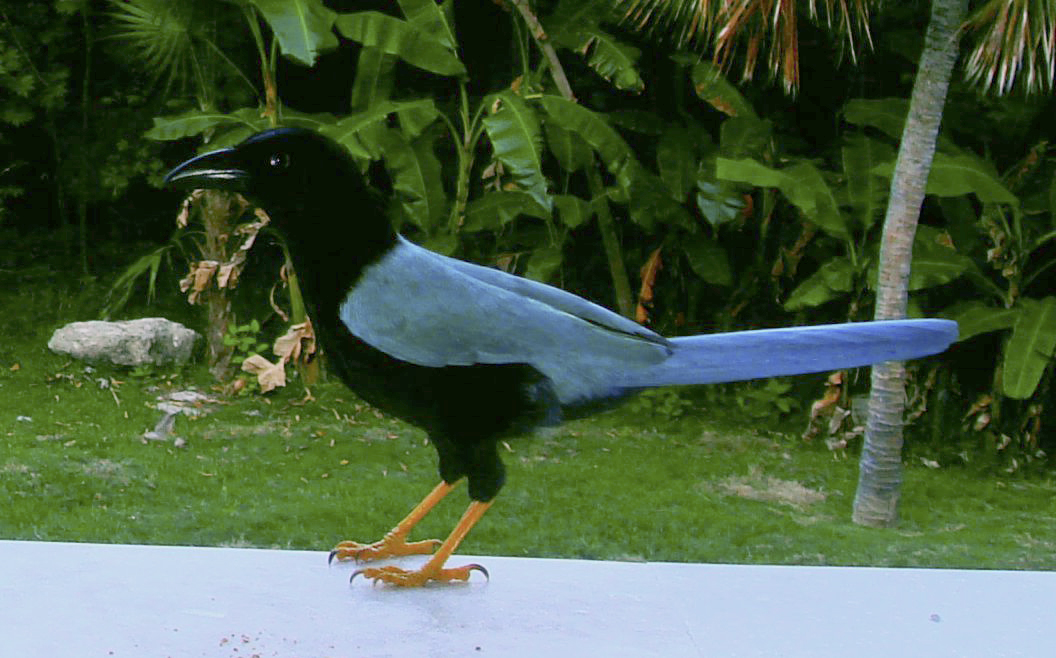 Puerto Aventuras, Quintana Roo, Mexico